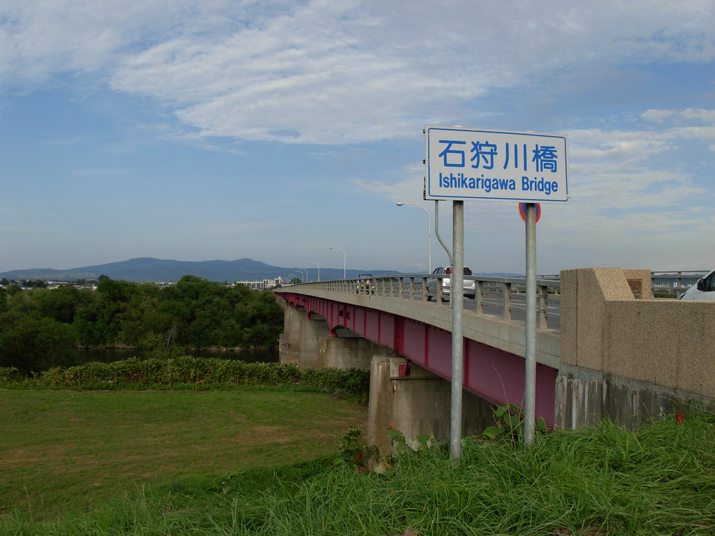 Ishikarigawa bridge (Japanese national route 451), taking from Shintotsukawa town 石狩川橋（国道451号）新十津川町側から撮影